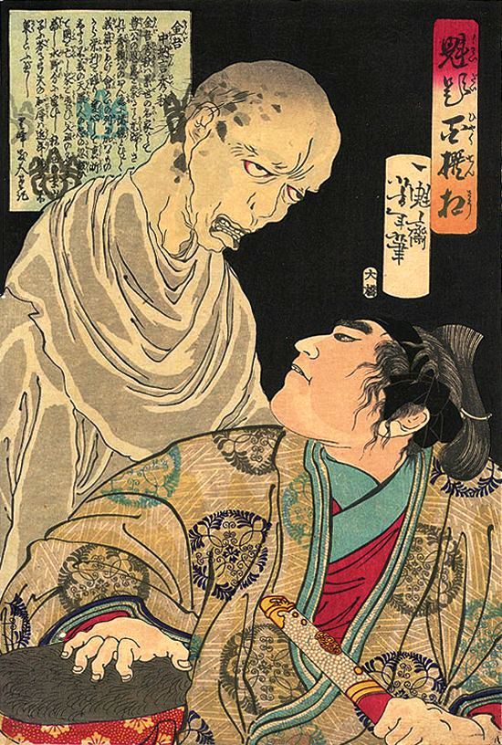 An ukiyo-e of Kobayakawa Hideaki. Kobayakawa is scared of Ōtani Yoshitsugu. Ukiyo-e by Tsukioka Yoshitoshi (1868). Part of the 'One Hundred Warriors in Battle Selected by Yoshitoshi' series of Nishiki-e